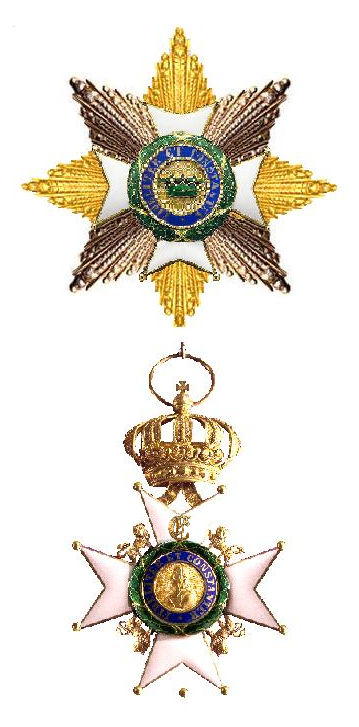 Cross of Sachse-Coburg and Gotha with a golden "E".